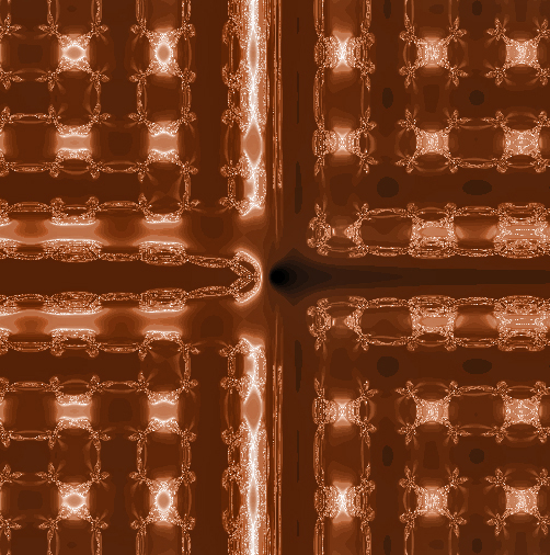 A topographical (moduli) image of an infinite composition of complex functions.